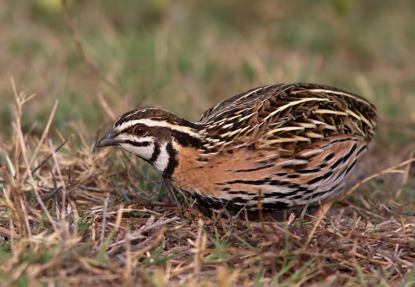 Photographed in Bangalore